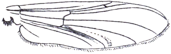 Wing of Ablabesmyia monilis